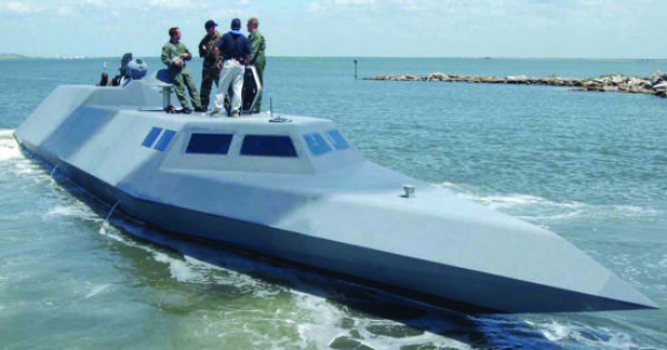 The Naval Special Warfare Command SEALION II, built by Oregon Iron Works, is completely enclosed for cargo and passengers. SEALION stands for "SEAL Insertion, Observation, and Neutralization".